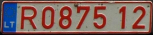 Lithuanian license plate for dealers since Septembre 20th, 2004, 12 = valid in 2012